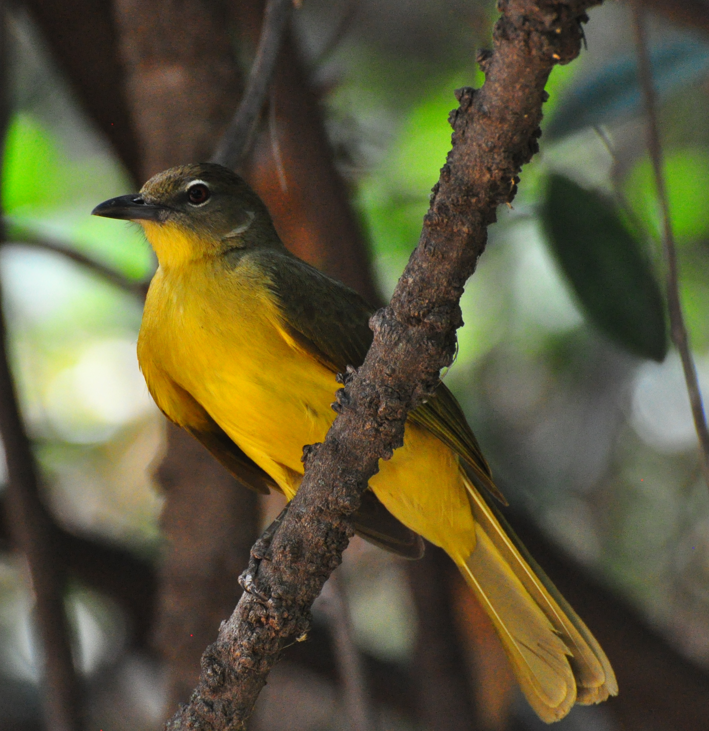 Yellow-bellied greenbul, Popa Falls, Okavango, Namibia